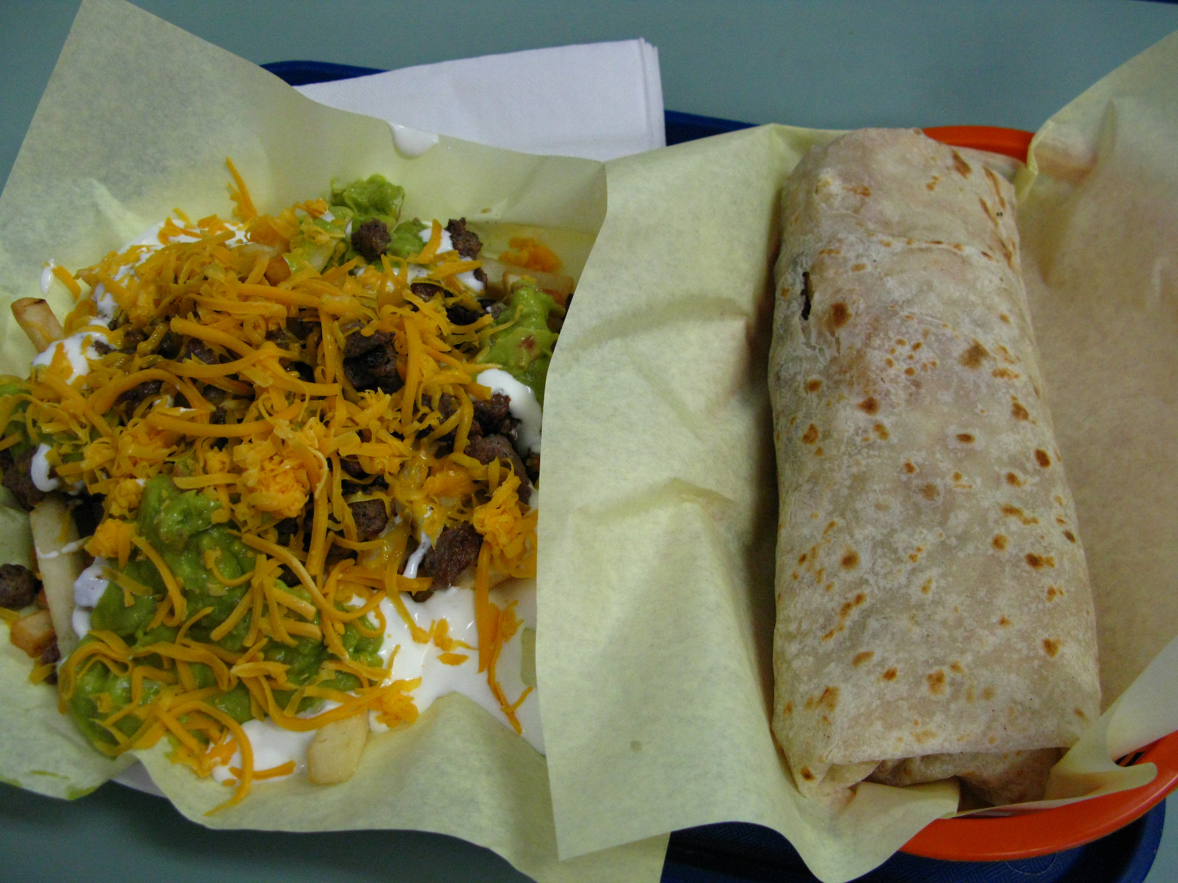 Carne Asada Fries & California Burrito side by side from Karinas taco shop